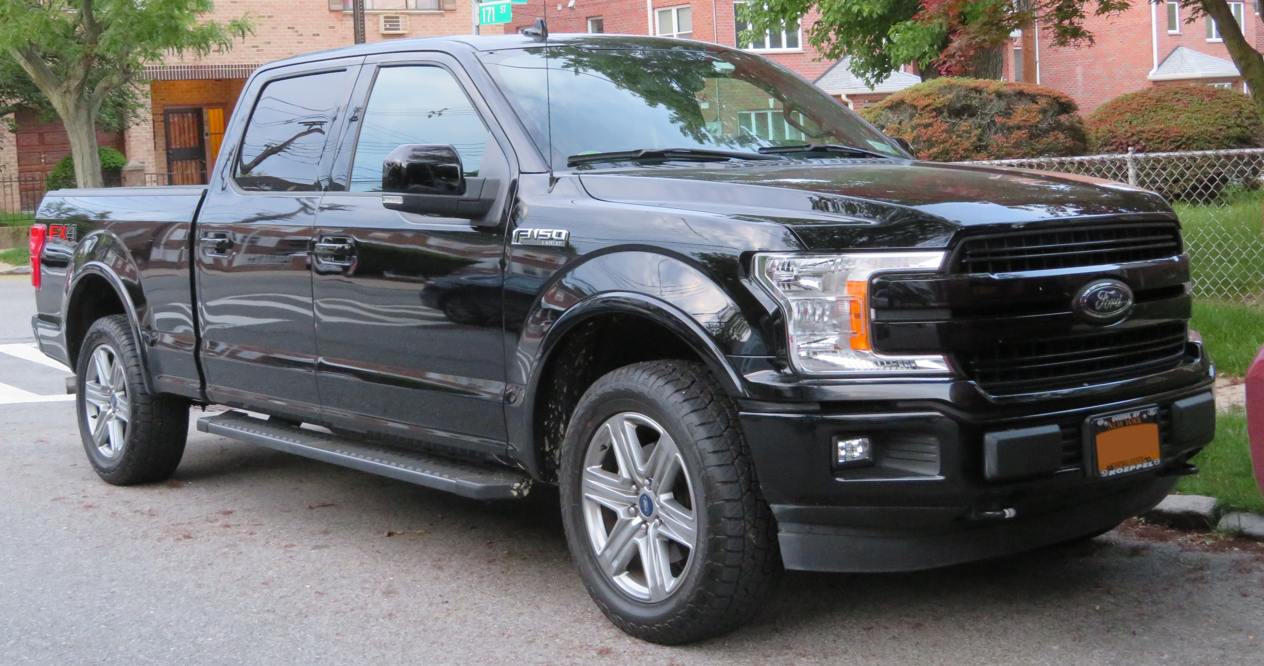 Photographed in Queens, New York